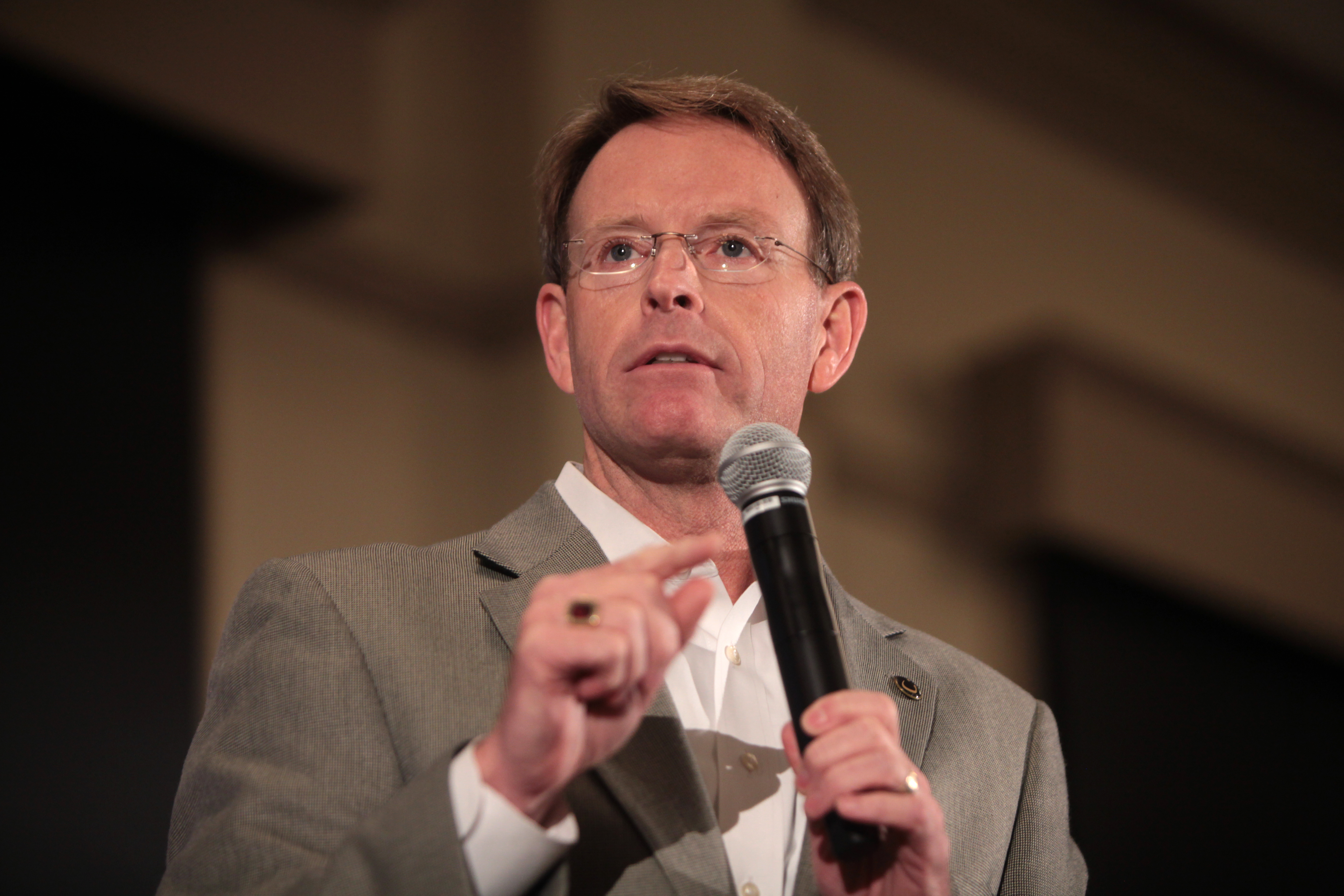 Tony Perkins speaking with supporters of U.S. Senator Ted Cruz at a campaign rally featuring former Governor Rick Perry at Noah's Event Center in West Des Moines, Iowa.